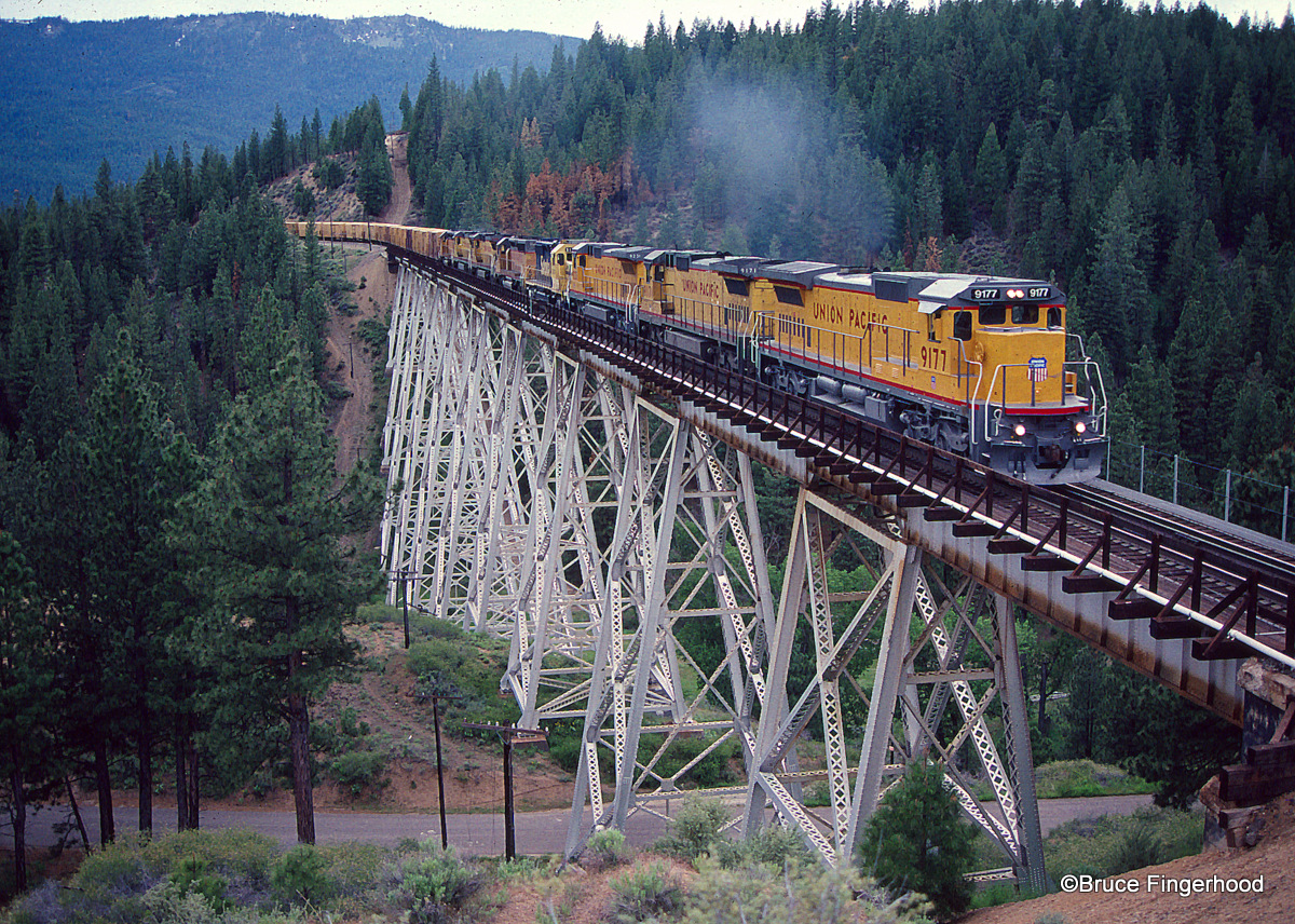 Eastbound Union Pacific freight crossing the Clio trestle in California's Feather River Canyon in May 1994